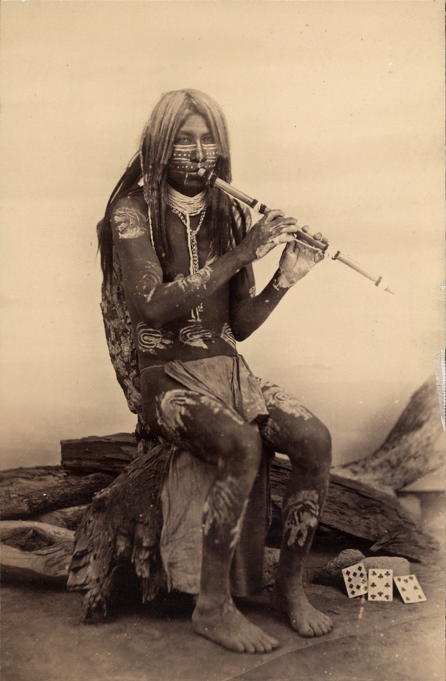 Yuma musician, Arizona. Photograph shows a portrait of a Yuma (Quechan) man in body paint, seated, facing front, playing a flute. At his feet are three playing cards face up.